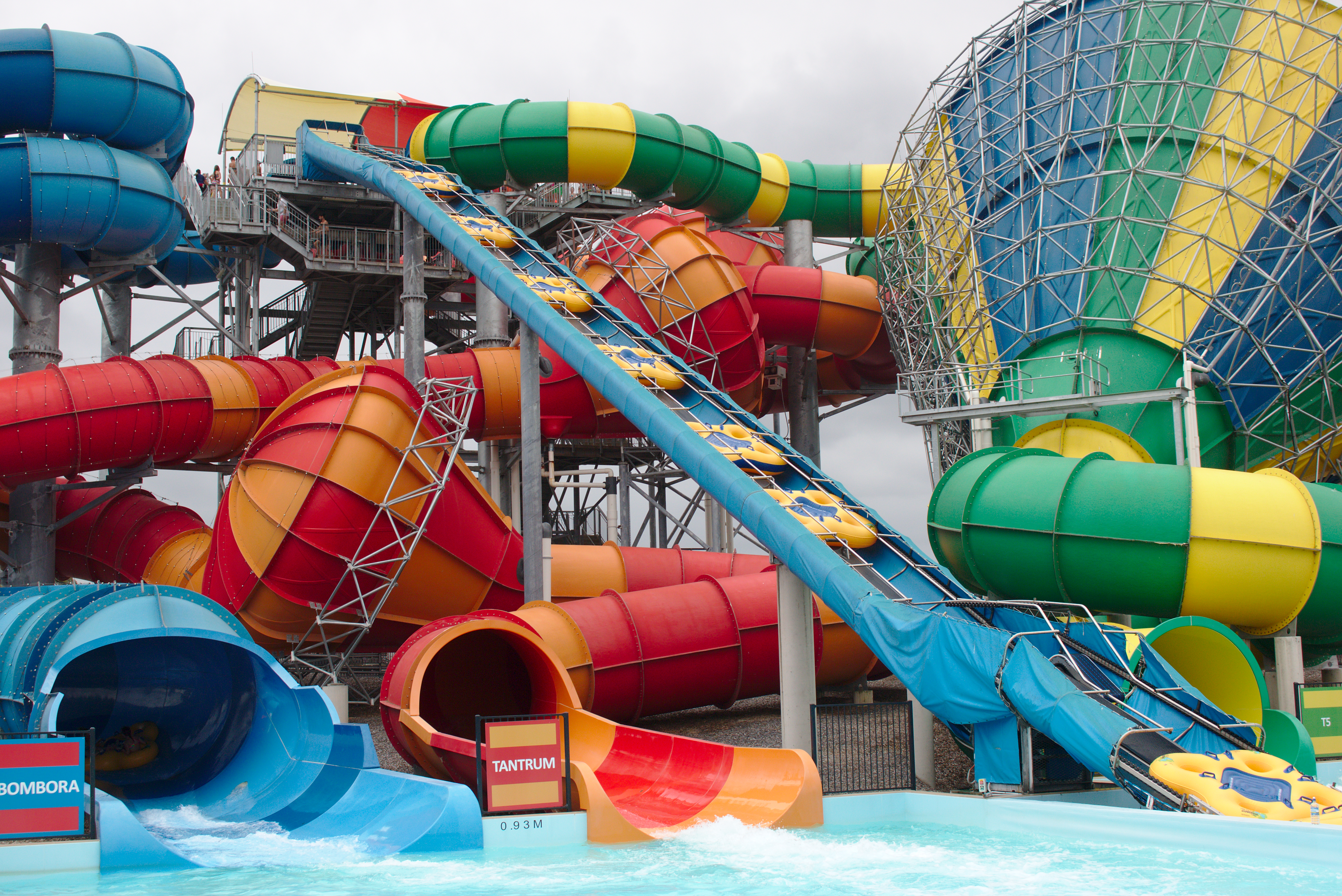 View of the exits from the Bomborra and Tantrum rides at Wet'n'Wild Sydney (Tower 1)